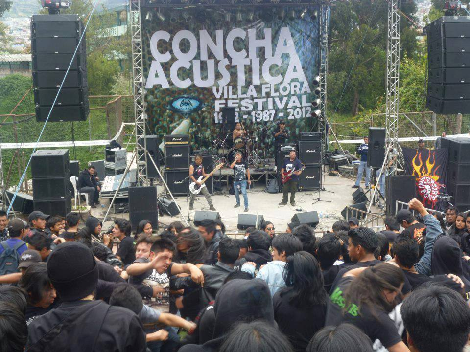 Inocencia Perdida at Al Sur del Cielo festival, 2012